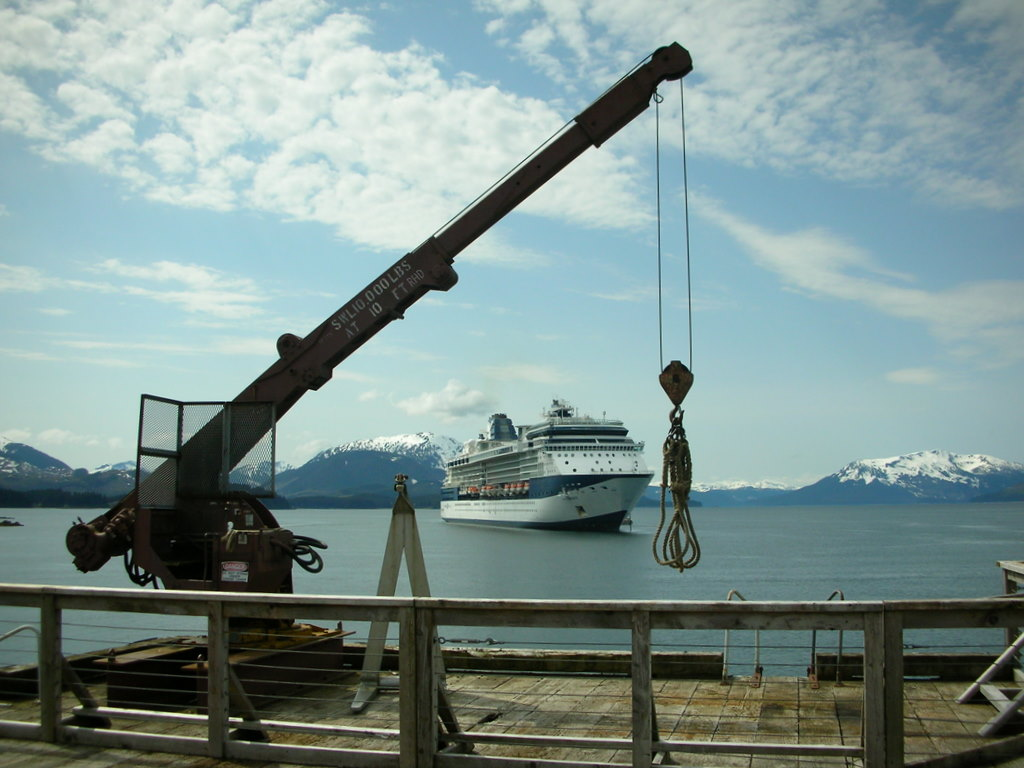 Taken from the pier of Icy Strait Point in Honnah, Alaska. IMO Number: 9189421 MMSI Number: 249048000 Callsign: 9HJD9 Length: 294 m Beam: 32m